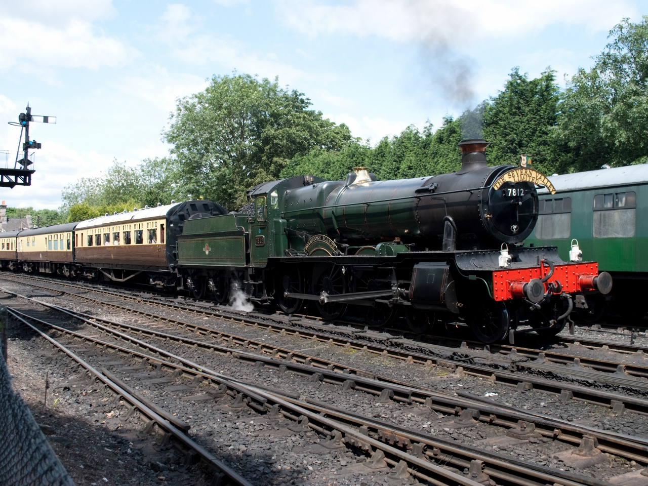 Similar to the 'Halls' and 'Granges' but with lighter axle loading allowing work to be done over routes barred to the above. Built by Collett, all 30 made were conversions from Churchward 43xx 2-6-0's but somewhat lighter than granges. Narrow footplate is a feature of this class.